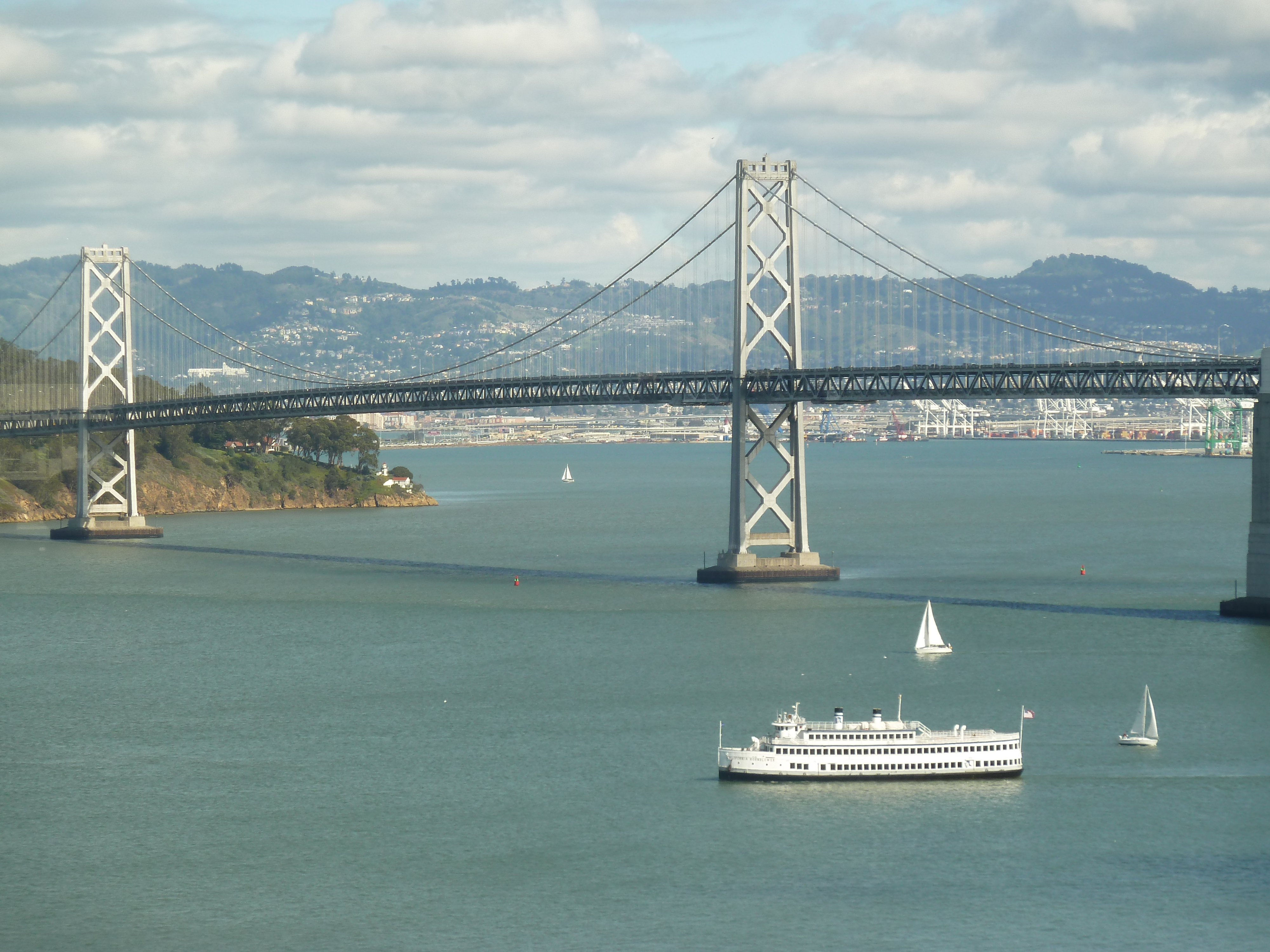 A view of the Bay Bridge from the top floor of the San Francisco Hyatt.